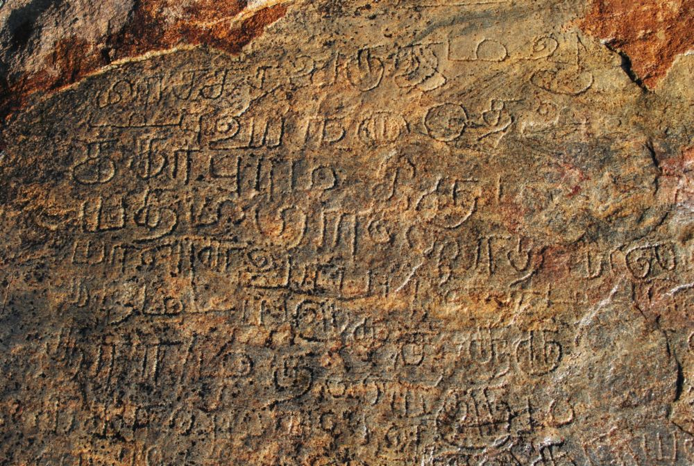 Tamil langauge inscriptions written in Grantha script - Sevarapoondi, near Devikapuram, Tamil Nadu, India.